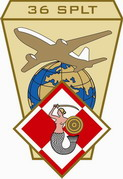 36 SPLT emblem (includes sword-wielding mermaid from coat of arms of city of Warsaw)